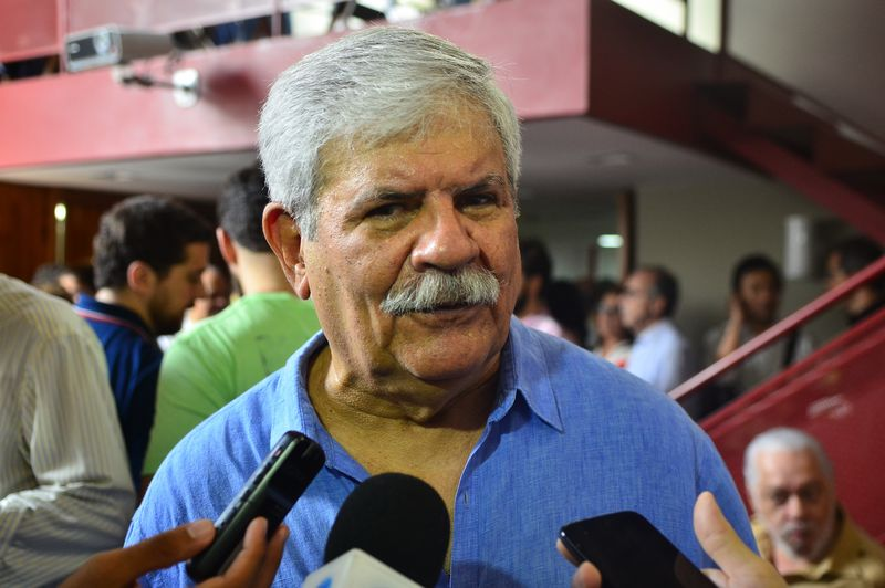 Dori Caymmi at the inauguration of Casa do Choro, at Rio de Janeiro, Brazil.